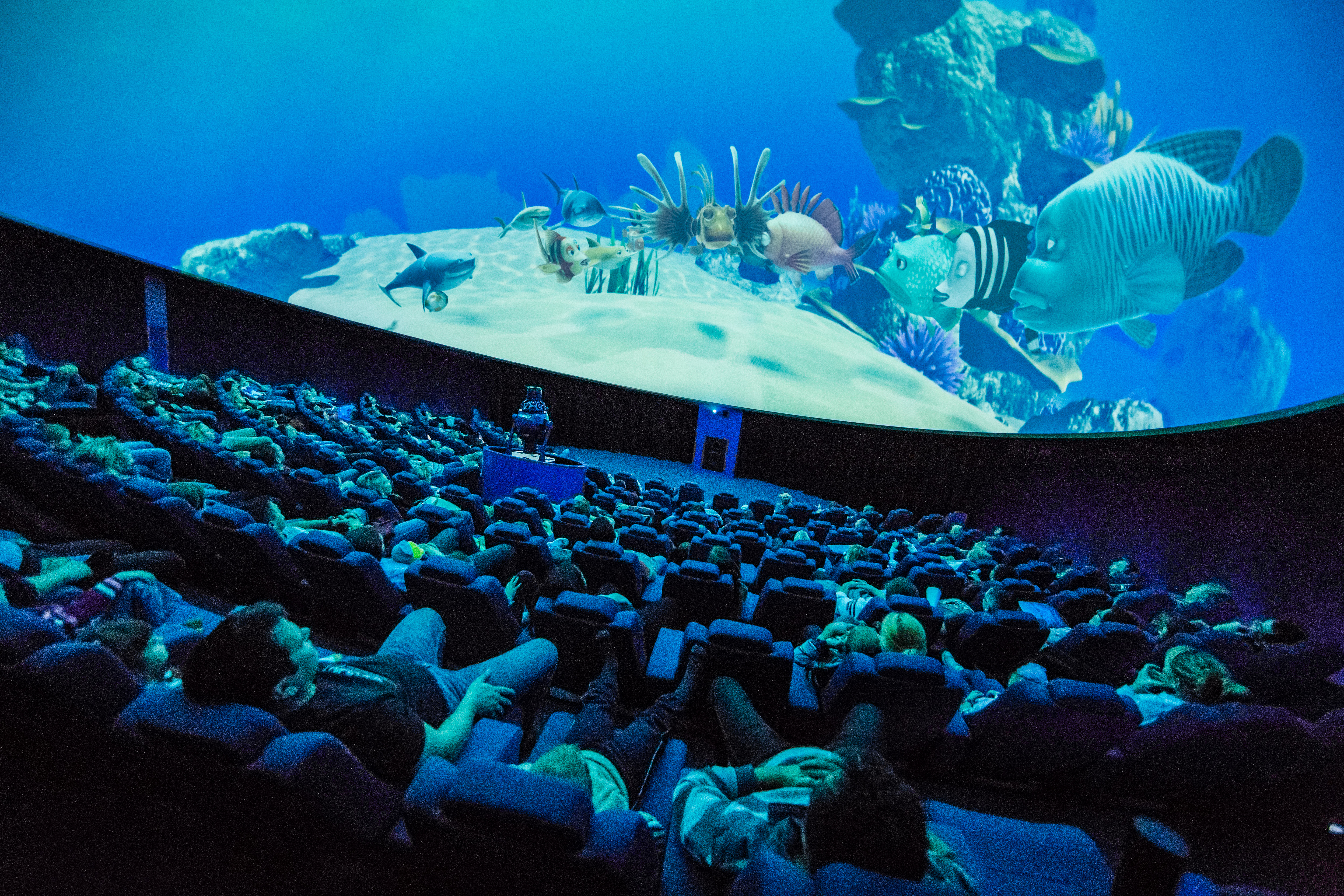 Digitarium at the Brno Observatory and Planetarium building at Kraví hora in Brno, Czech Republic